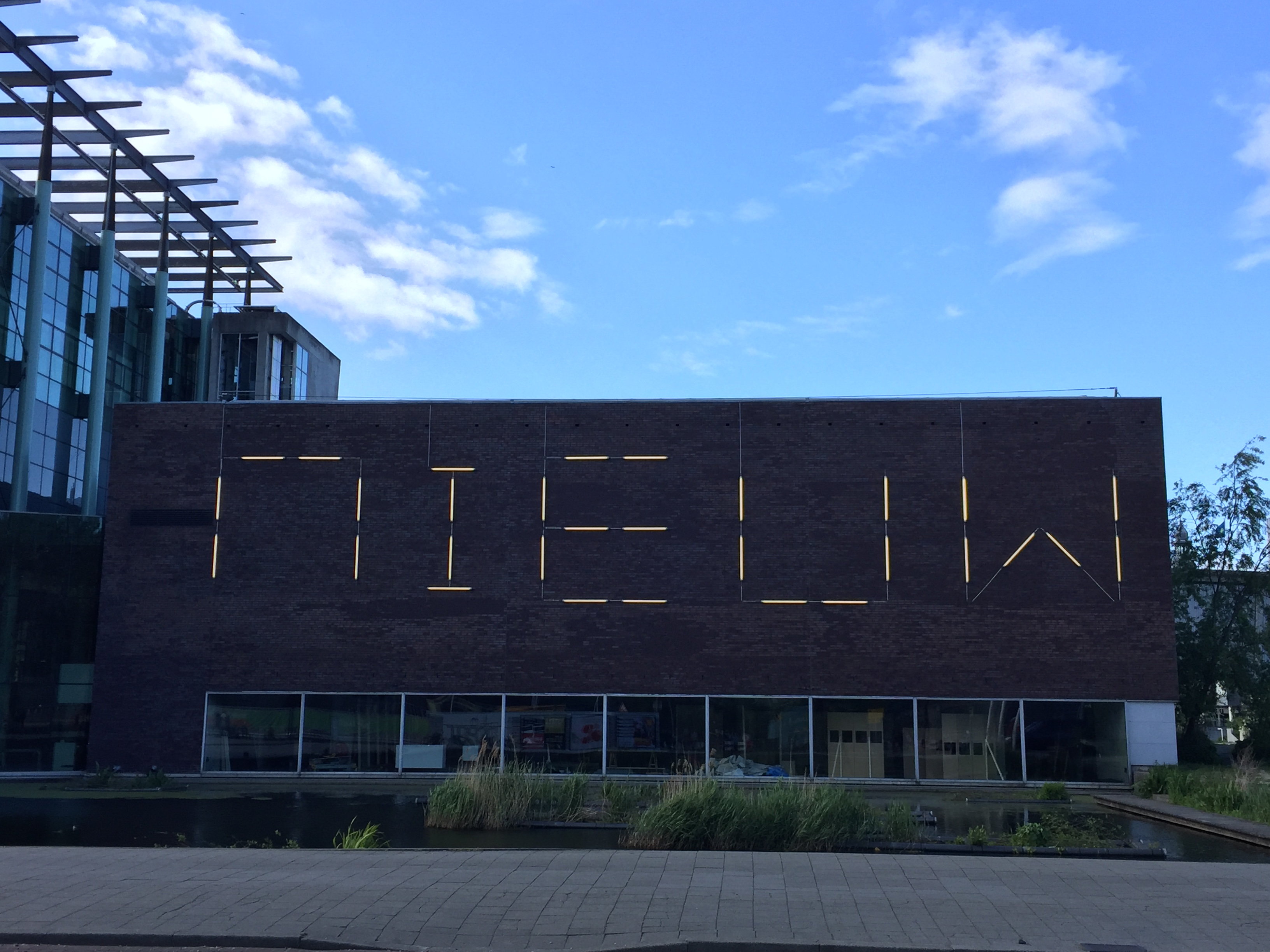 Het Nieuwe Instituut, Rotterdam, 4 May 2019